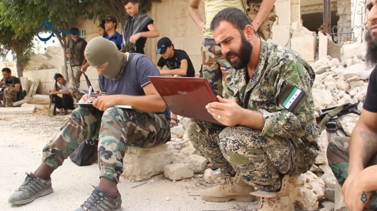 Qasioun news:Aleppo:Opposition forces shell with rockets launchers YPG sites in Aleppo 2-10-2015